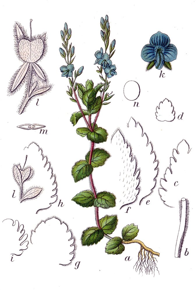 Species Veronica chamaedrys Fig. from book